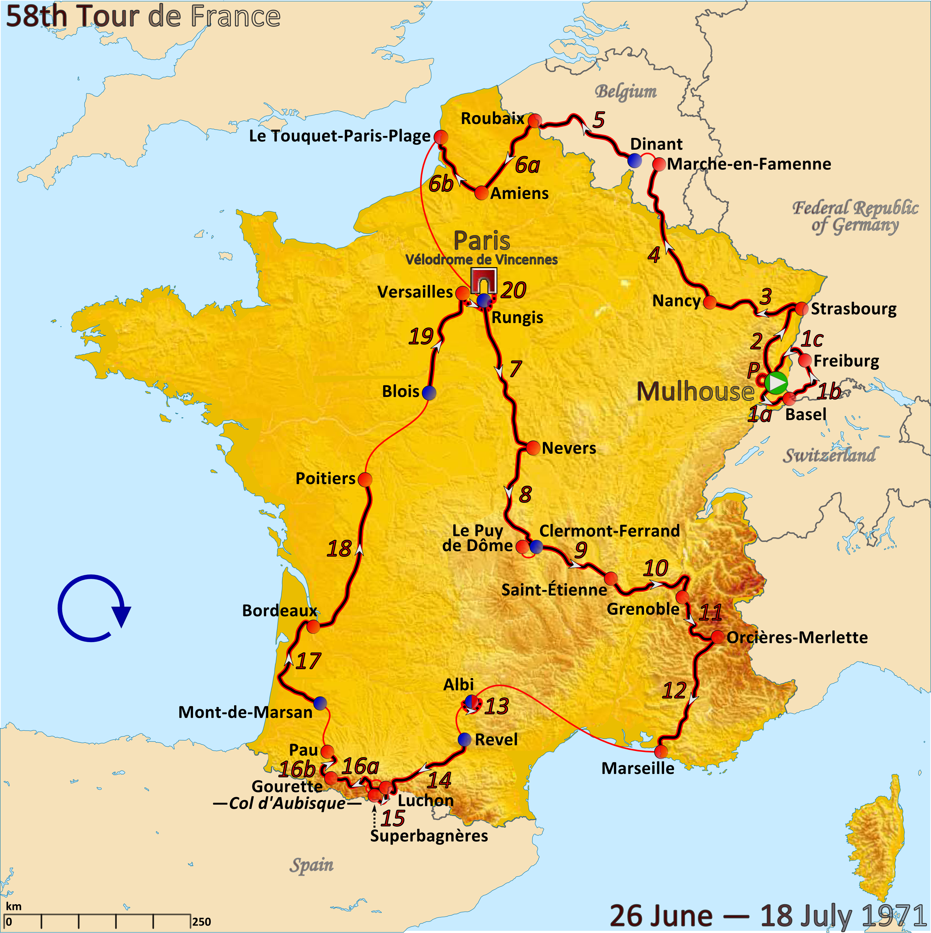 Map of the 1971 Tour de France created in Inkscape using accurate stage maps from touratlas.nl.